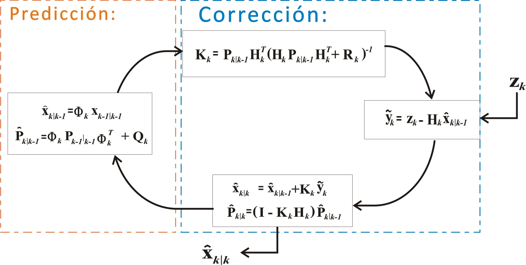 Kalman Filter Algorithm Spanish